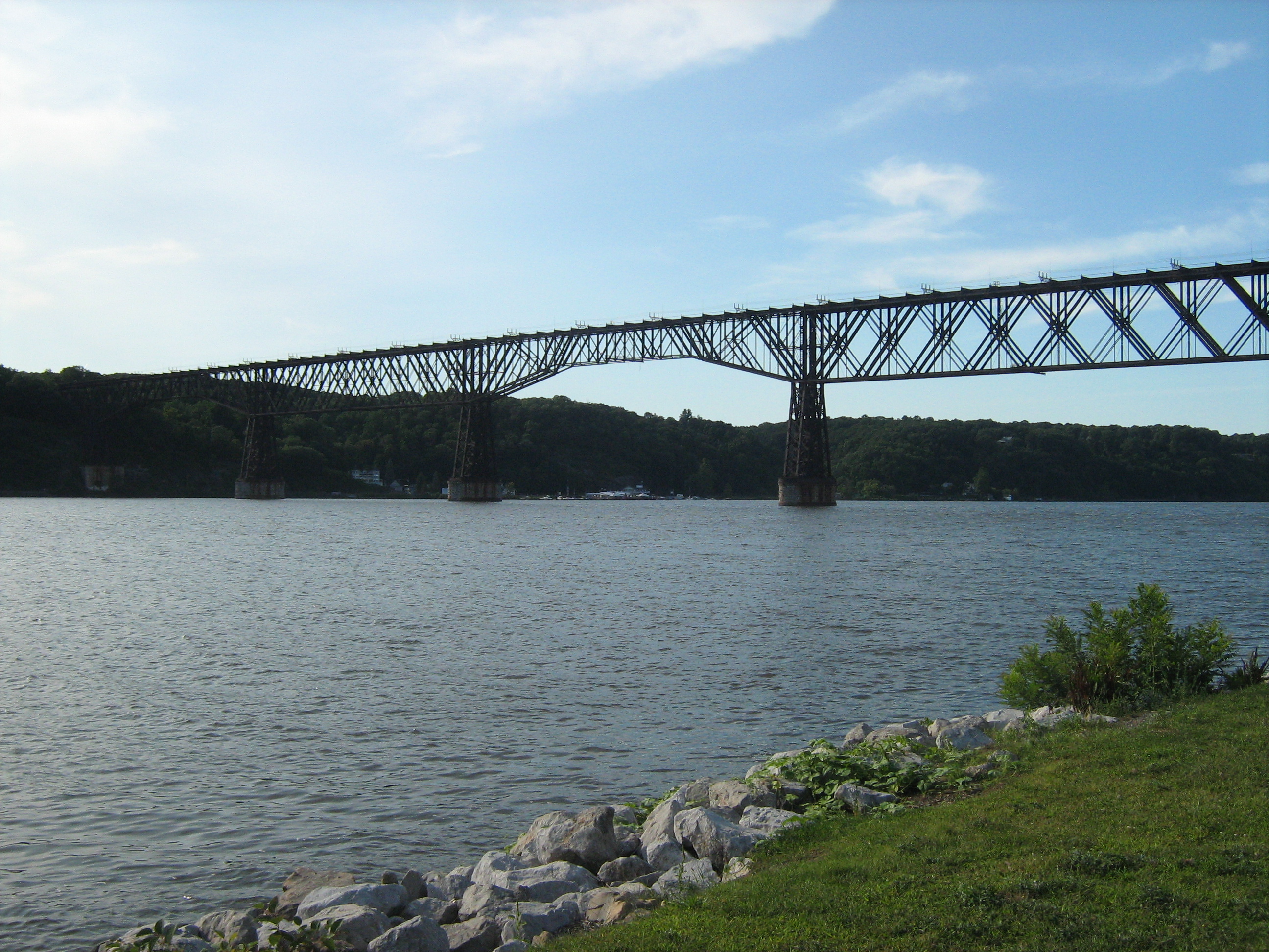 Looking northwest at Poughkeepsie Railroad Bridge from Waryas Park